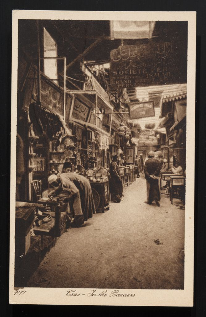 Dark, narrow corridor with merchants